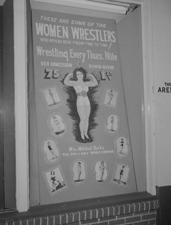 A poster in Jacksonville, Florida advertises Mildred Burke